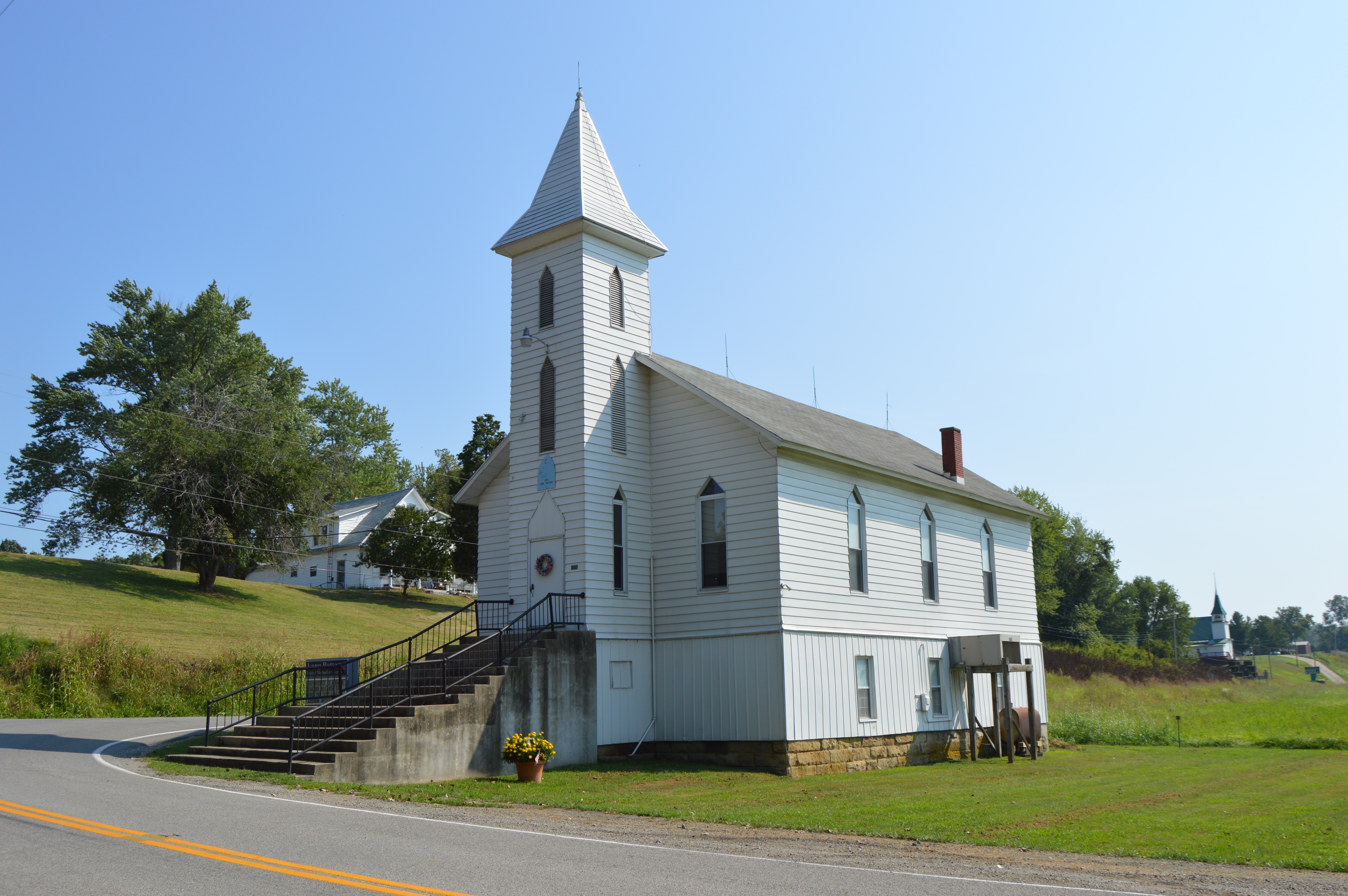 Southern side and front of the Long Bottom United Methodist Church, located at 61675 State Route 124 in Long Bottom, Ohio, United States.